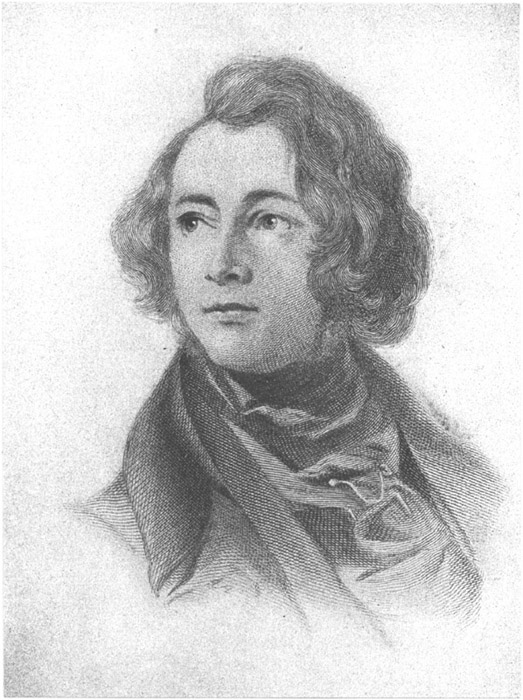 Charles Dickens - Project Gutenberg eText 19222